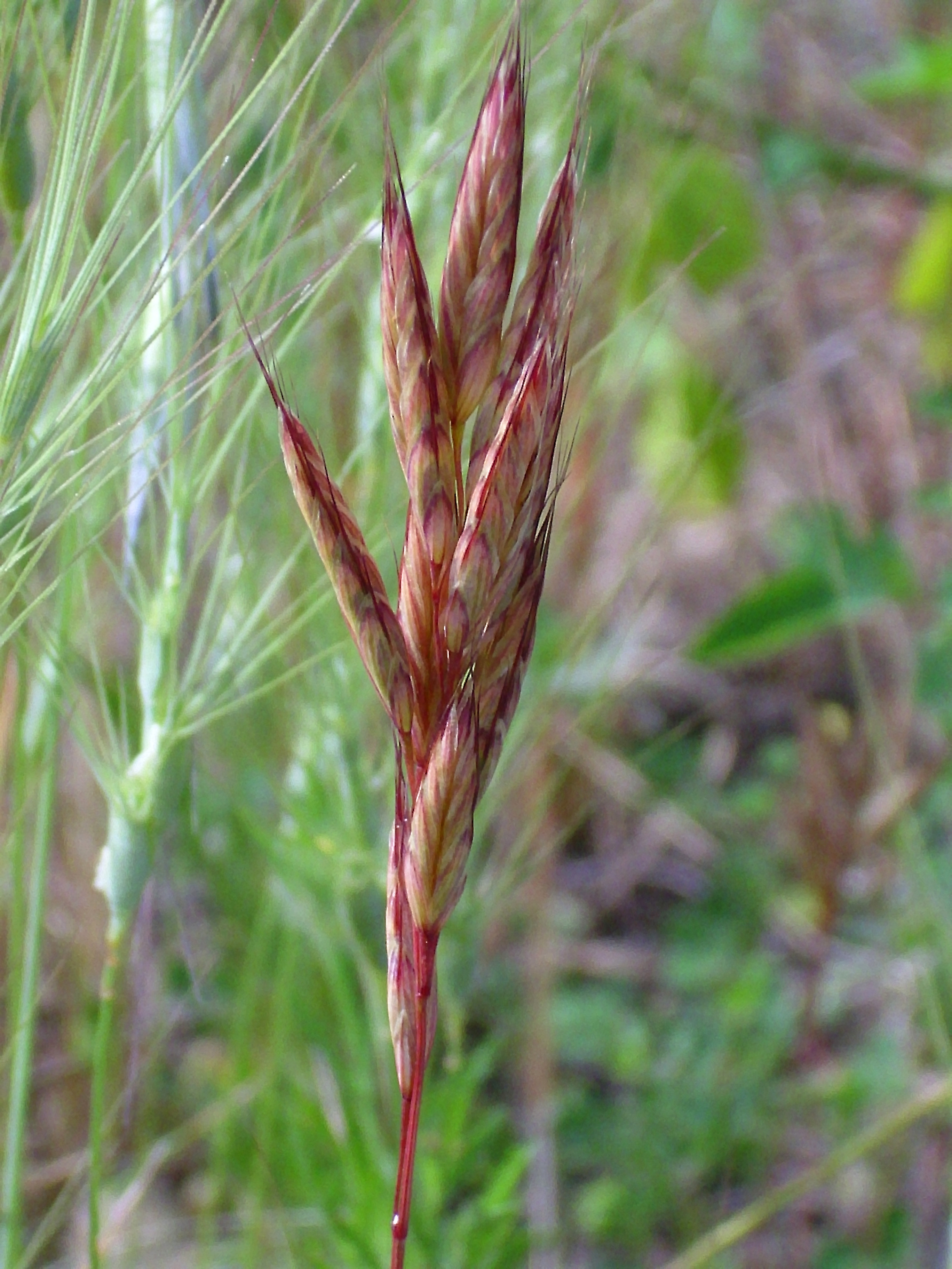 Brachypodium distachyon spikes close up, Dehesa Boyal de Puertollano, Spain